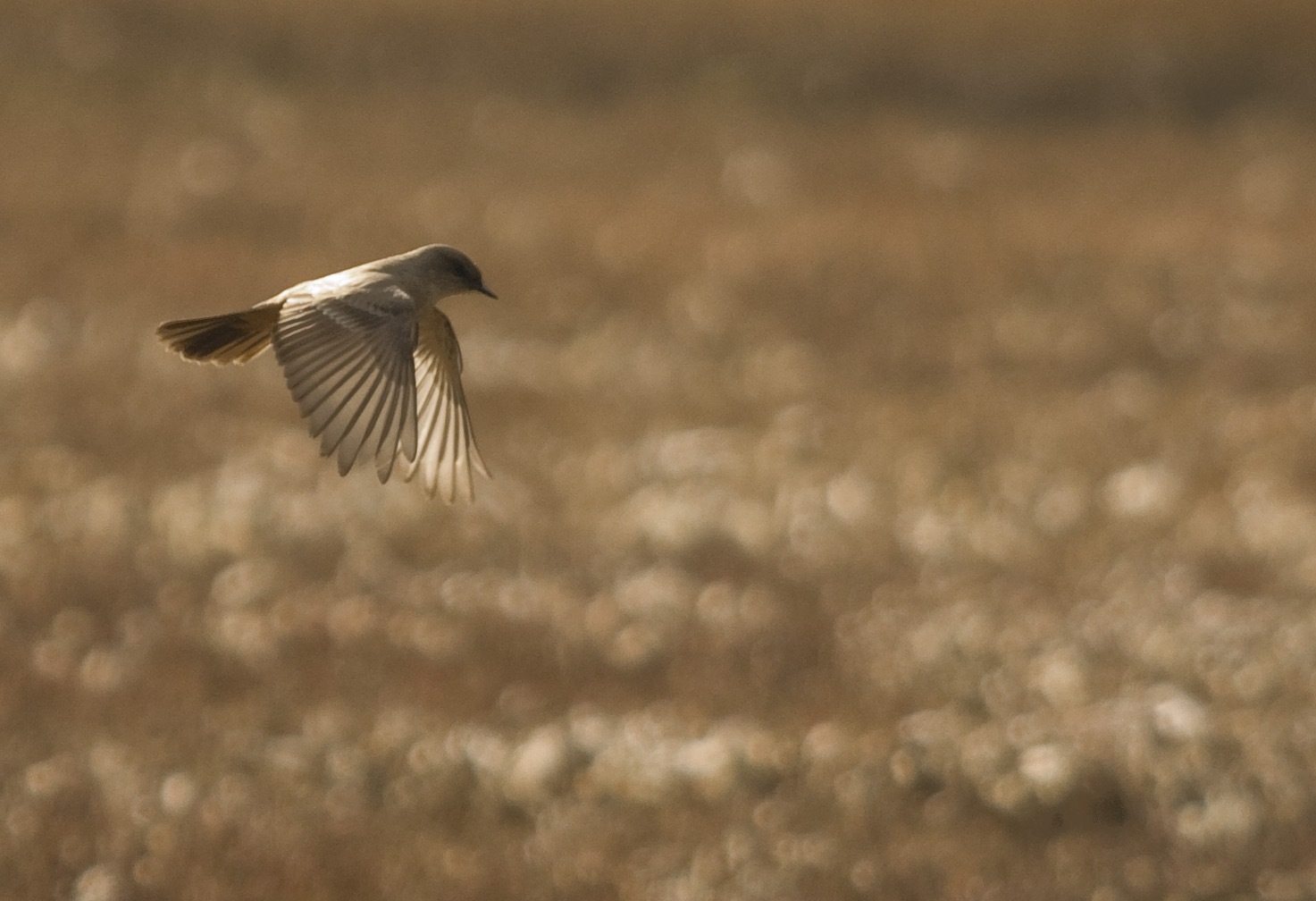 Says Phoebe. Seen on the estuary during the 2008 Winter Bird Festival